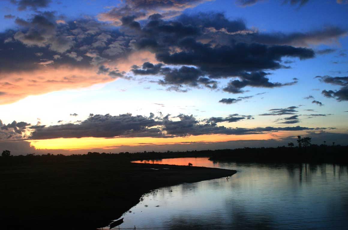 Scenic view of River Dhansiri in Golaghat,Assam,India.